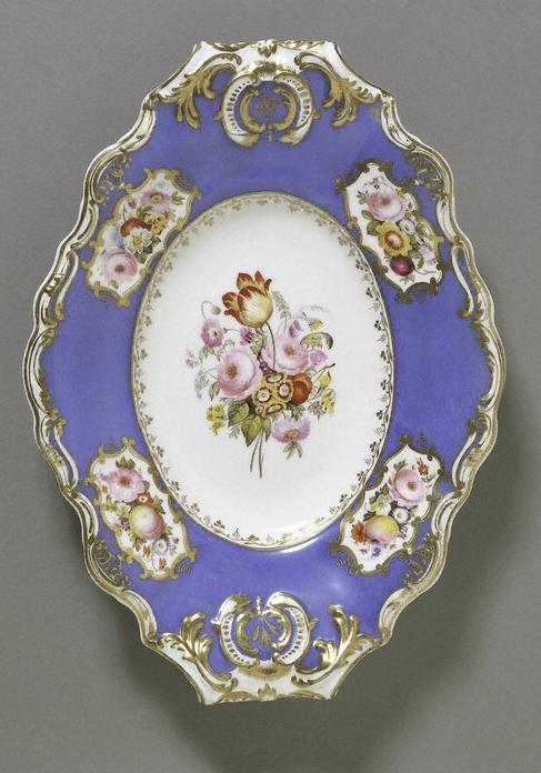 Dish, 1831, manufactured by Spode Ceramic Works V&A Museum no. 566A-1902 Techniques - Porcelain Place - Stoke-on-Trent, England Object Type - Dishes had formed an essential part of dinner services as far back as the 18th century, when comprehensive sets of Chinese porcelain included a graduated nest of heavy rectangular (then described as 'square') serving dishes. When in the early 19th century English pottery and porcelain dinner services entirely superseded those imported from China, similar serving dishes were required, but they were increasingly modelled on silver ware, with wavy and heavily-moulded rims. Collectors & Owners - This dish is part of a service that was acquired by the V&A from Miss H. M. Gulson, who had inherited it from her uncle, Josiah Spode IV (1823-1893). Although the Museum wished to accept only a token number of pieces, because of the impossibility of displaying the service in its entirety, eventually they agreed to take it all, rather than destroy the integrity of a documented service. Since 1902 it has largely remained in store, although parts of the service have in recent years been loaned to 10 Downing Street. The British Galleries now provide a fitting permanent display of the many different shapes used in the service. The Spode family provenance suggests that the service should represent the grandest and most opulent porcelain made at the factory at Stoke-on-Trent, Staffordshire, in the last years of Spode ownership. The factory archives, now available to collectors, show that the moulded shape called 'Royal Embossed' was first made about 1831. This date exactly agrees with the introduction of the painted pattern (No.4964). It would seem therefore that Josiah Spode IV, only eight years old in 1831, may have inherited the service later from his own father, Josiah Spode III.